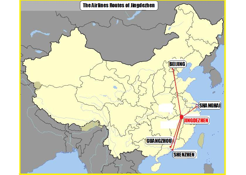 The Airlines Routes of Jingdezhen